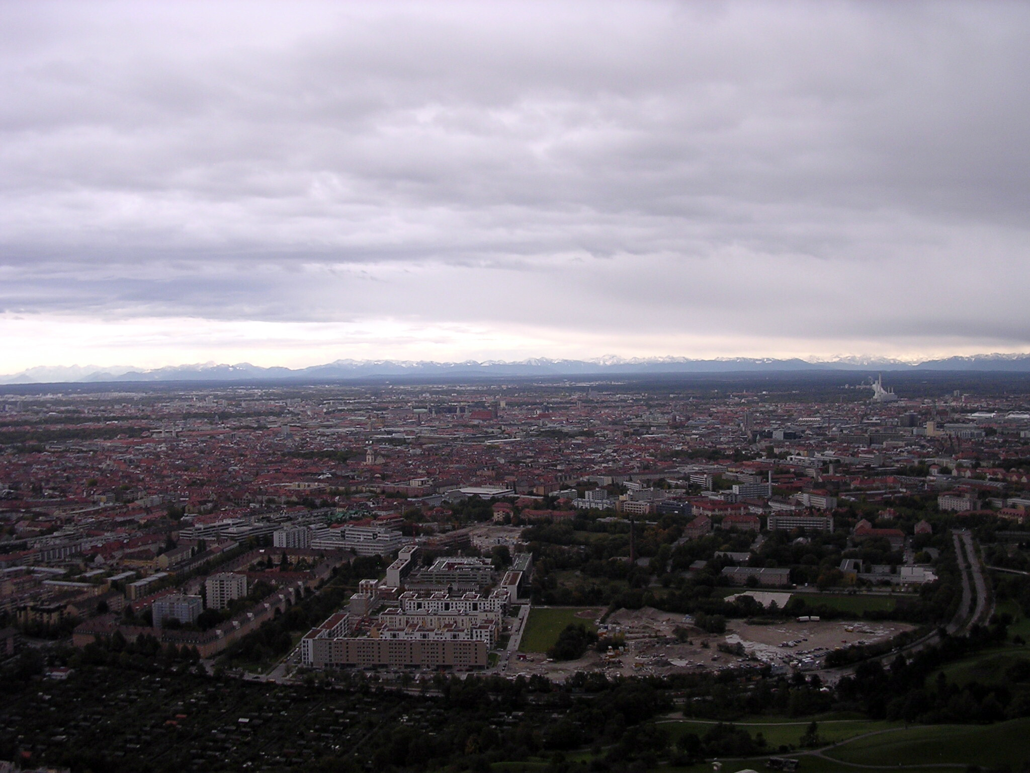 The German city Munich, looking to south, to the Alps.